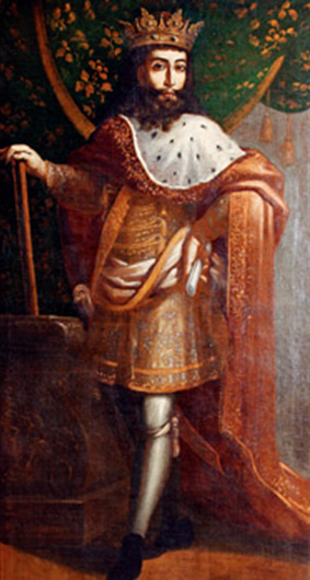 Peter I of Portugal.